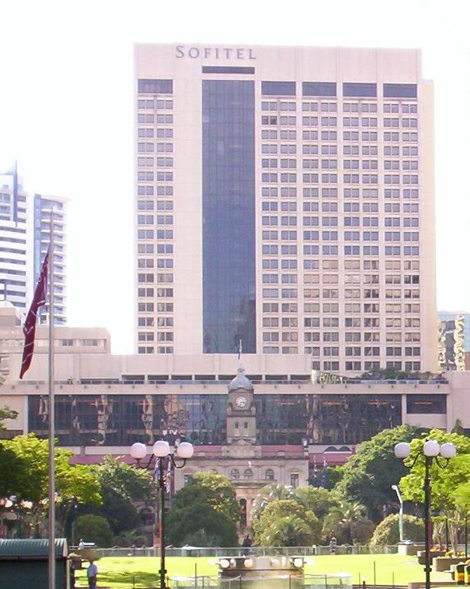 Central Station, Brisbane, Queensland, Australia, with ANZAC Square in the foreground and the Sofitel Hotel rising above it